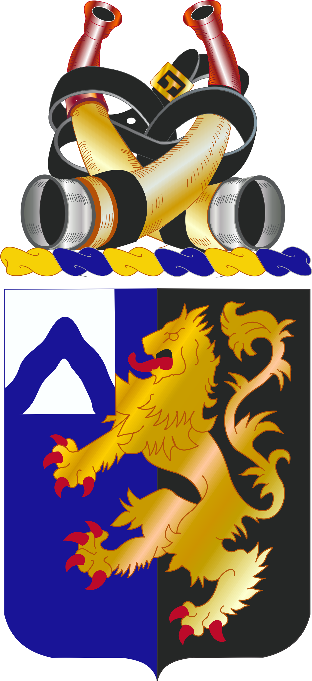 Description/Blazon Shield Per pale Azure and Sable a lion rampant Or, on a canton Argent a chevron wavy of the first. Crest On a wreath Or and Azure two hunting horns in saltire Or, inserts Argent, mouthpieces Gules and straps interlaced Sable buckled of the first. Motto DRAGOONS. Symbolism Shield The colors blue and white are used for Infantry. Black and gold are the colors of the Belgian coat of arms from which the Belgian lion is adapted. The wavy chevron on the canton is for descent from the 9th Infantry. The Belgian lion represents the organization's action at Ardennes and St. Vith, for which it was awarded two unit decorations by the Belgian government. Crest The crest, consisting of Teutonic hunting horns, alludes to the German battle honors of World War II. Background The coat of arms was originally approved for the 48th Infantry Regiment on 3 February 1921. It was redesignated for the 48th Armored Infantry Regiment on 19 May 1942. The insignia was redesignated for the 48th Armored Infantry Battalion on 30 November 1943. It was redesignated for the 48th Infantry Regiment and amended by the addition of a charge to and modification of the shield and a crest on 14 October 1958.